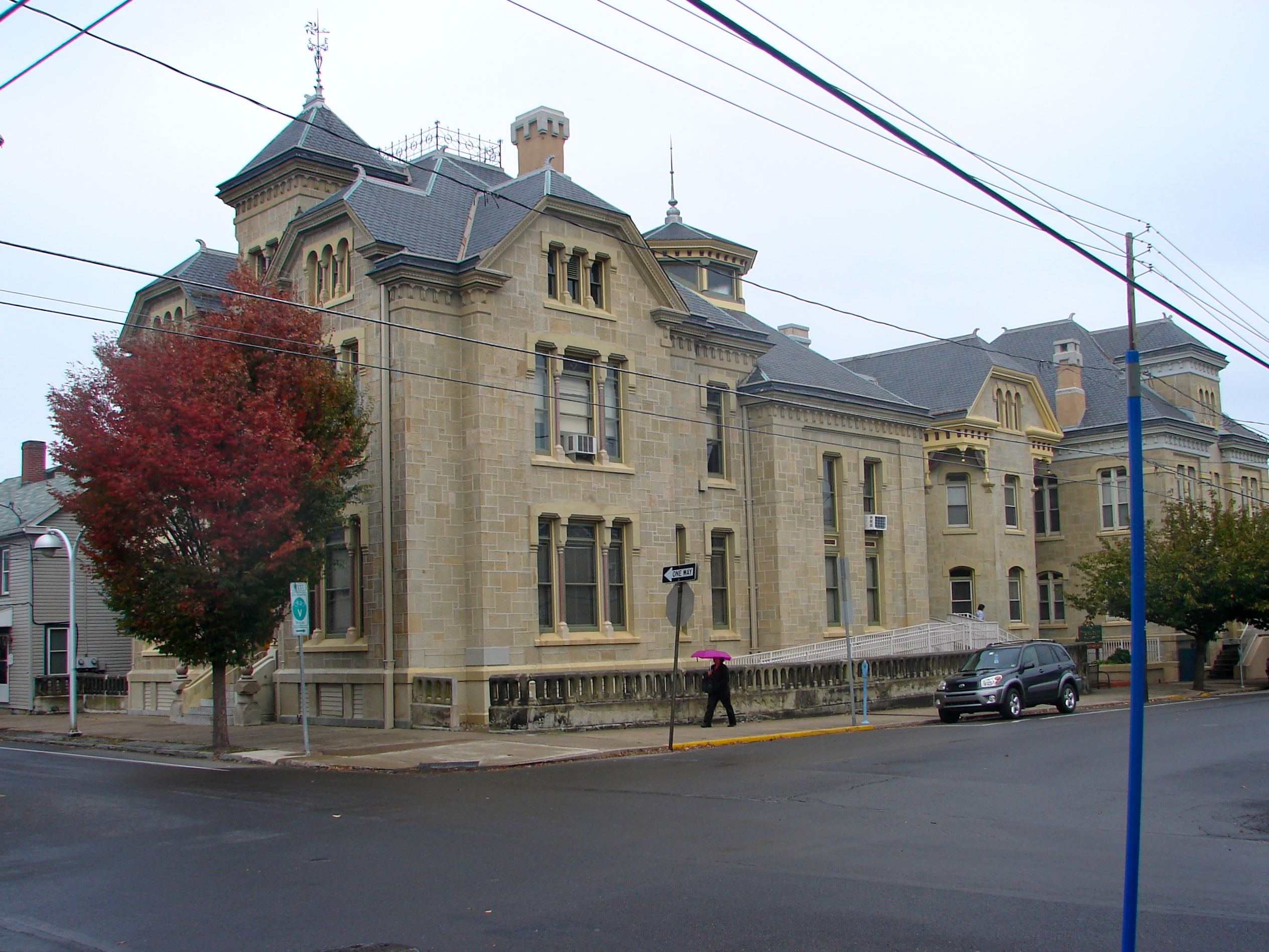 Thomas Beaver Free Library and Danville YMCA on the NRHP since January 15, 1987. At East Market and Ferry Streets in Danville, Montour County, Pennsylvania.